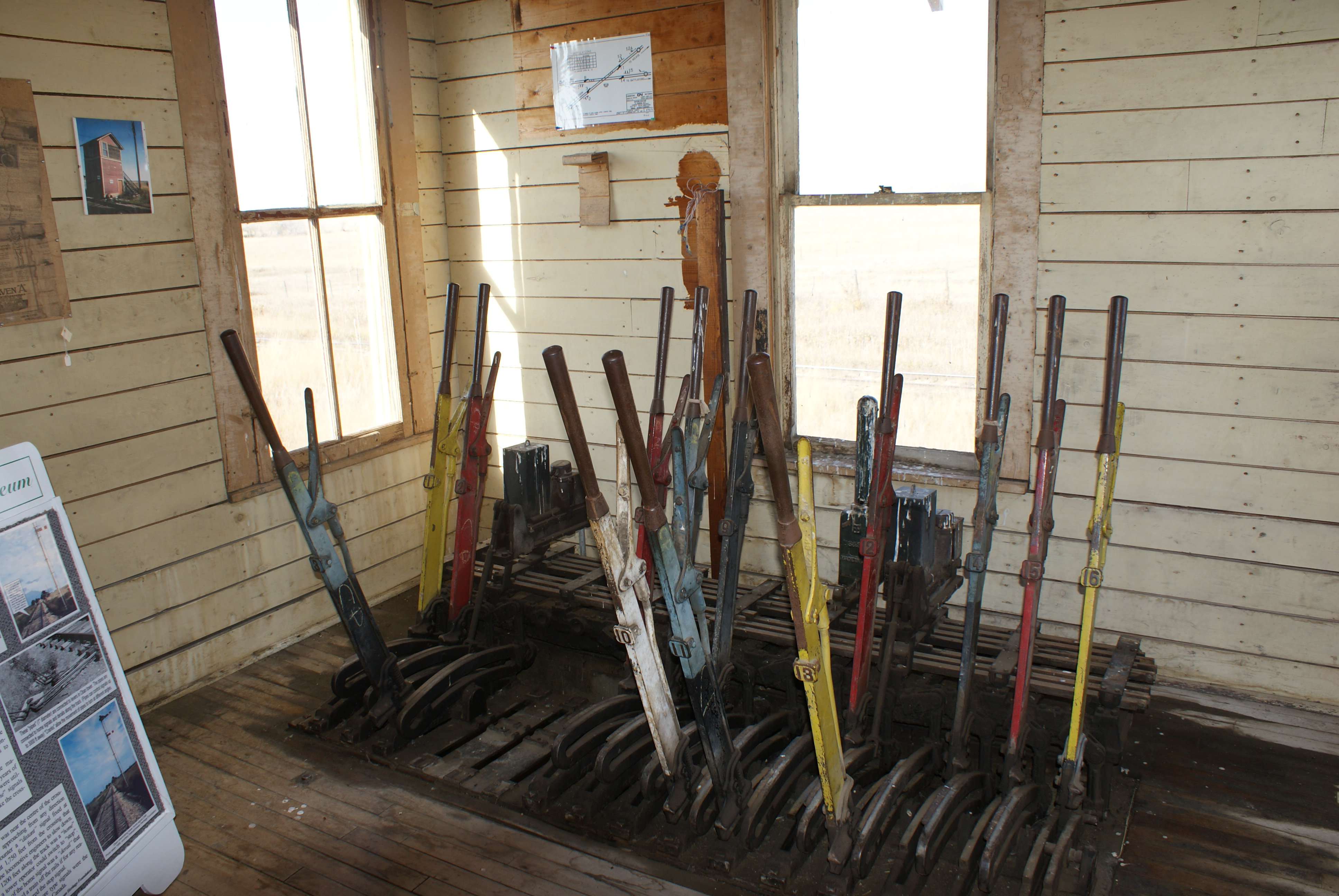 Lever frame in the Interlocking Oban tower at the Saskatchewan Railway Museum